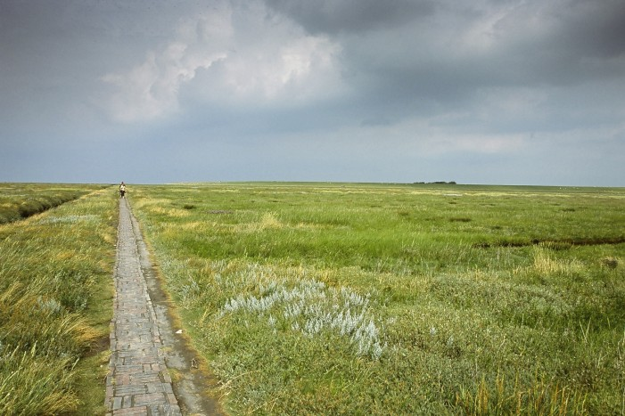 Marshland in Eiderstedt, North Friesland, Schleswig-Holstein, Germany.